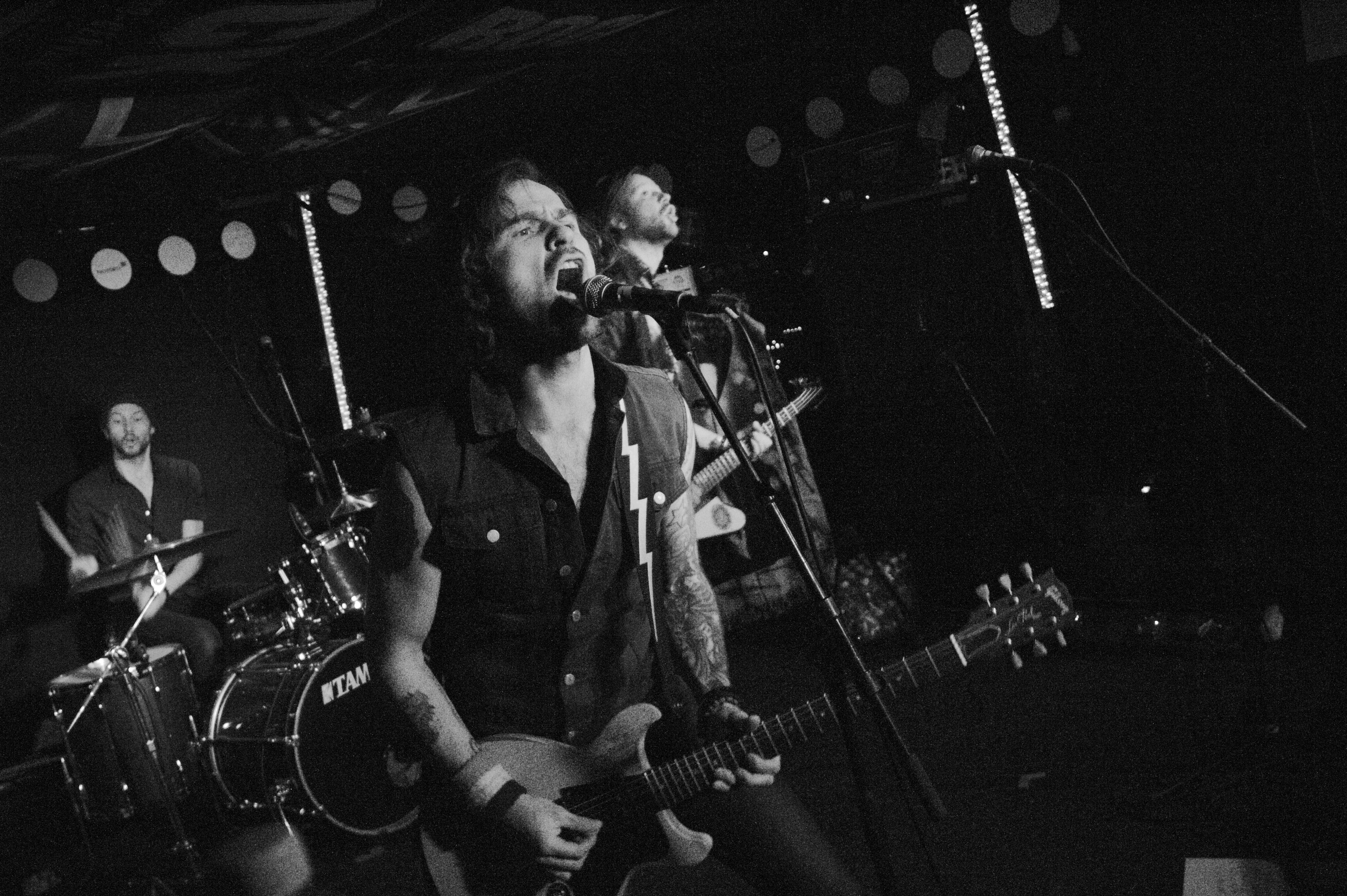 Dead Furies at Tallinn Music Week 2017